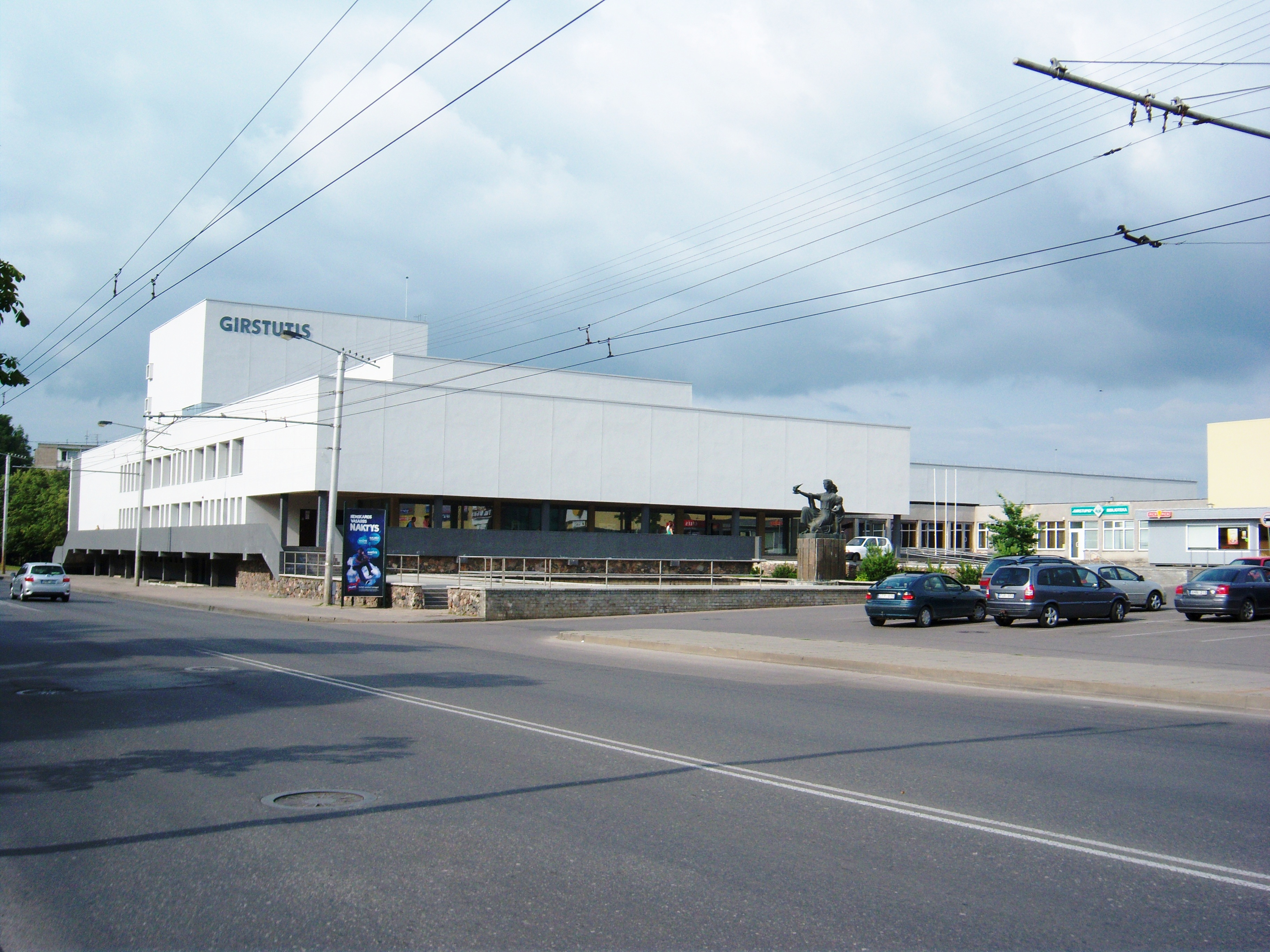 Girstutis, Kaunas, Lithuania